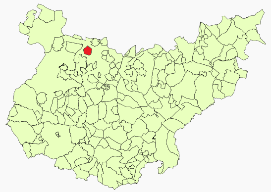 La Nava de Santiago